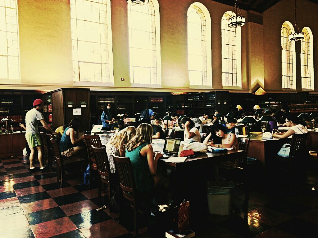 Inside of the Powell Library (2nd floor), UCLA students study, read, and rest.